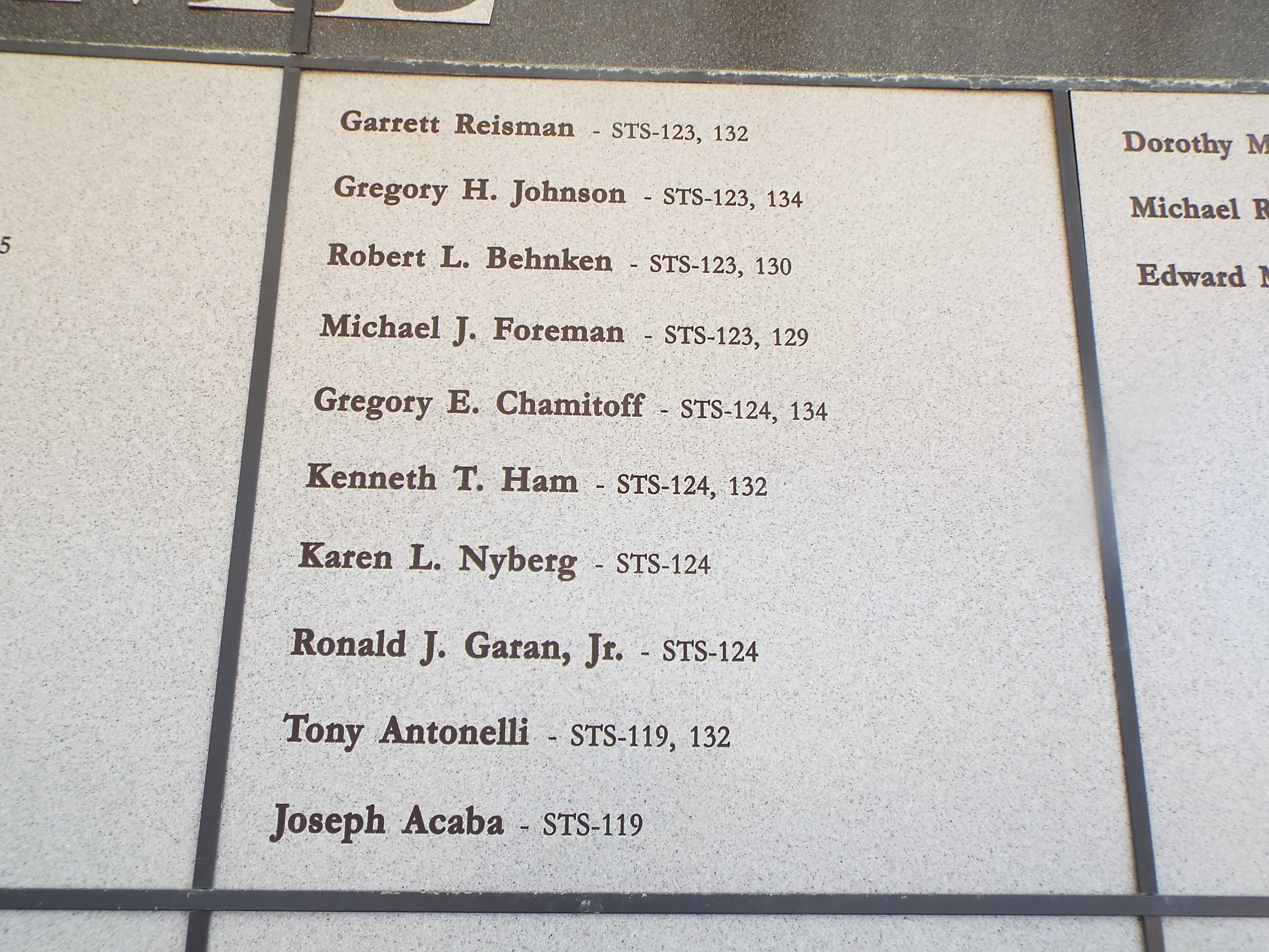 Astronaut Joseph M. Acacba’s name is inscribed in the American Astronaut Wall of Fame in Winslow, Arizona. Acaba, who is the first astronaut of Puerto Rican descent, participated in the STS-119 and Soyuz TMA-04M NASA missions.